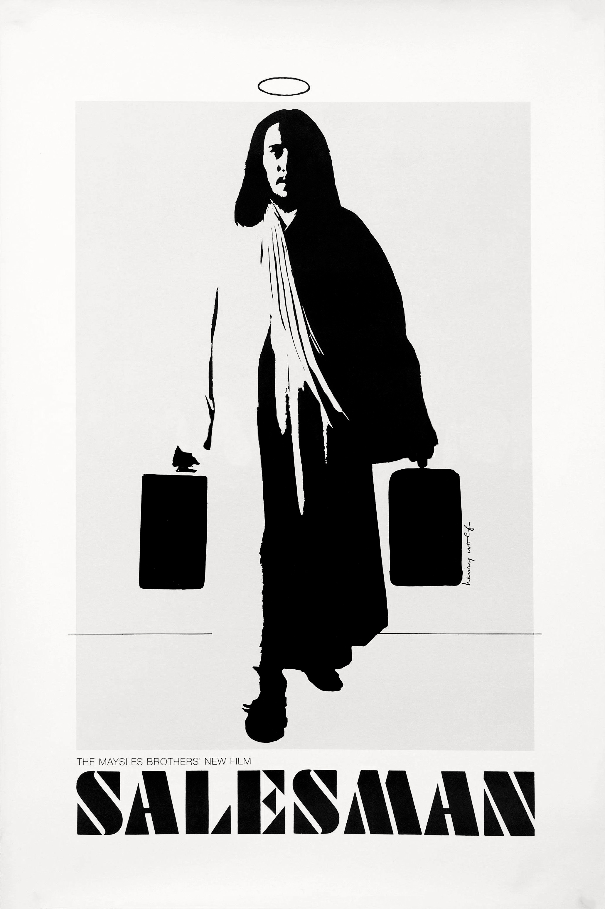 Theatrical release poster for the 1969 documentary film Salesman, a monochromatic illustration of Jesus carrying two briefcases.